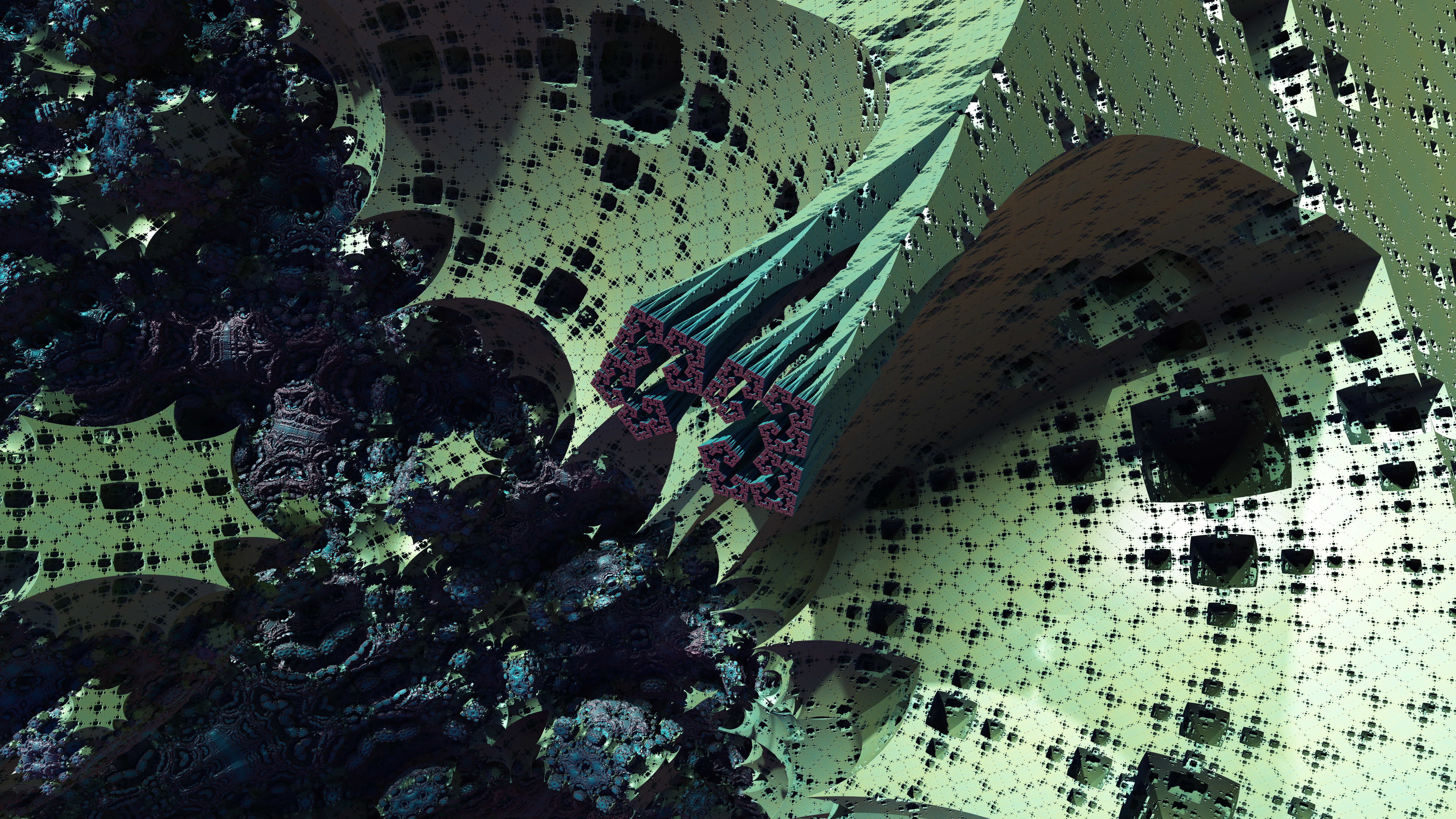 From the FRACT file: Mandelbulber settings file version 2.18 only modified parameters [main_parameters] ambient_occlusion_enabled true; ambient_occlusion_mode 1; ambient_occlusion_quality 10; camera 1,684373543400722 1,963908143849059 1,93548935425577; camera_distance_to_target 3,220119554164132; camera_rotation 163,804279791819 -49,79527932096625 7,124442486478278e-13; camera_top -0,2130226770237511 -0,7334333464698082 0,6455206157511415; file_background C:\Users\ \Downloads\mandelbulber2-win64-2.16-standalone\mandelbulber2-win64-2.16-standalone\textures\background.jpg; file_envmap C:\Users\ \Downloads\mandelbulber2-win64-2.16-standalone\mandelbulber2-win64-2.16-standalone\textures\envmap.jpg; file_lightmap C:\Users\ \Downloads\mandelbulber2-win64-2.16-standalone\mandelbulber2-win64-2.16-standalone\textures\lightmap.jpg; flight_last_to_render 99999; formula_1 8; hdr true; image_height 4500; image_proportion 4; image_width 8000; keyframe_last_to_render 0; limit_max 10 0 10; mat1_coloring_random_seed 262229; mat1_is_defined true; mat1_surface_color_palette 19111c 31399b e37072 d6ff6b 21ffff 9a8184 bd696b 940082 0023c8 79c4a8; raytraced_reflections true; SSAO_random_mode true; target 1,104596792904976 -0,03225305486736052 -0,5238539181309525; [fractal_1] mandelbox_scale -1,5